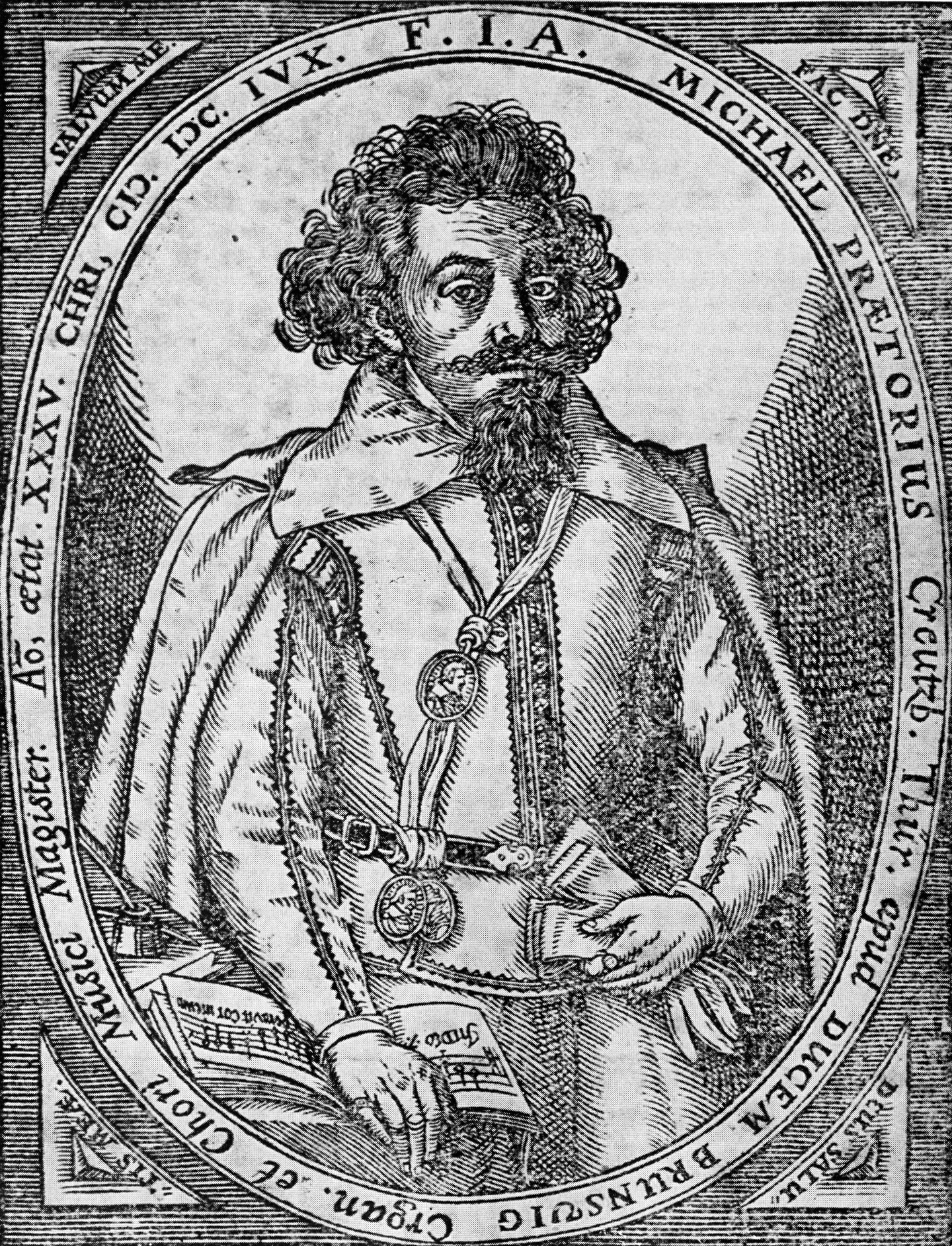 Michael Praetorius (1571-1621); 1606; 20:15 cm